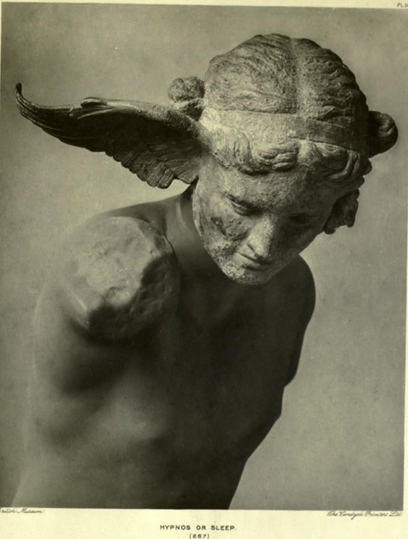 God Hypnos